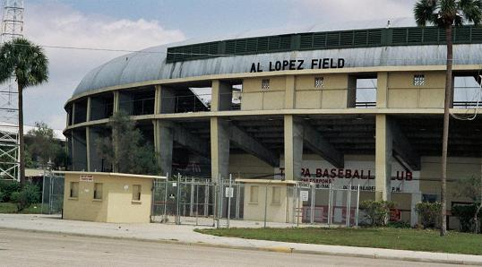 Main entrance to Al Lopez Field.